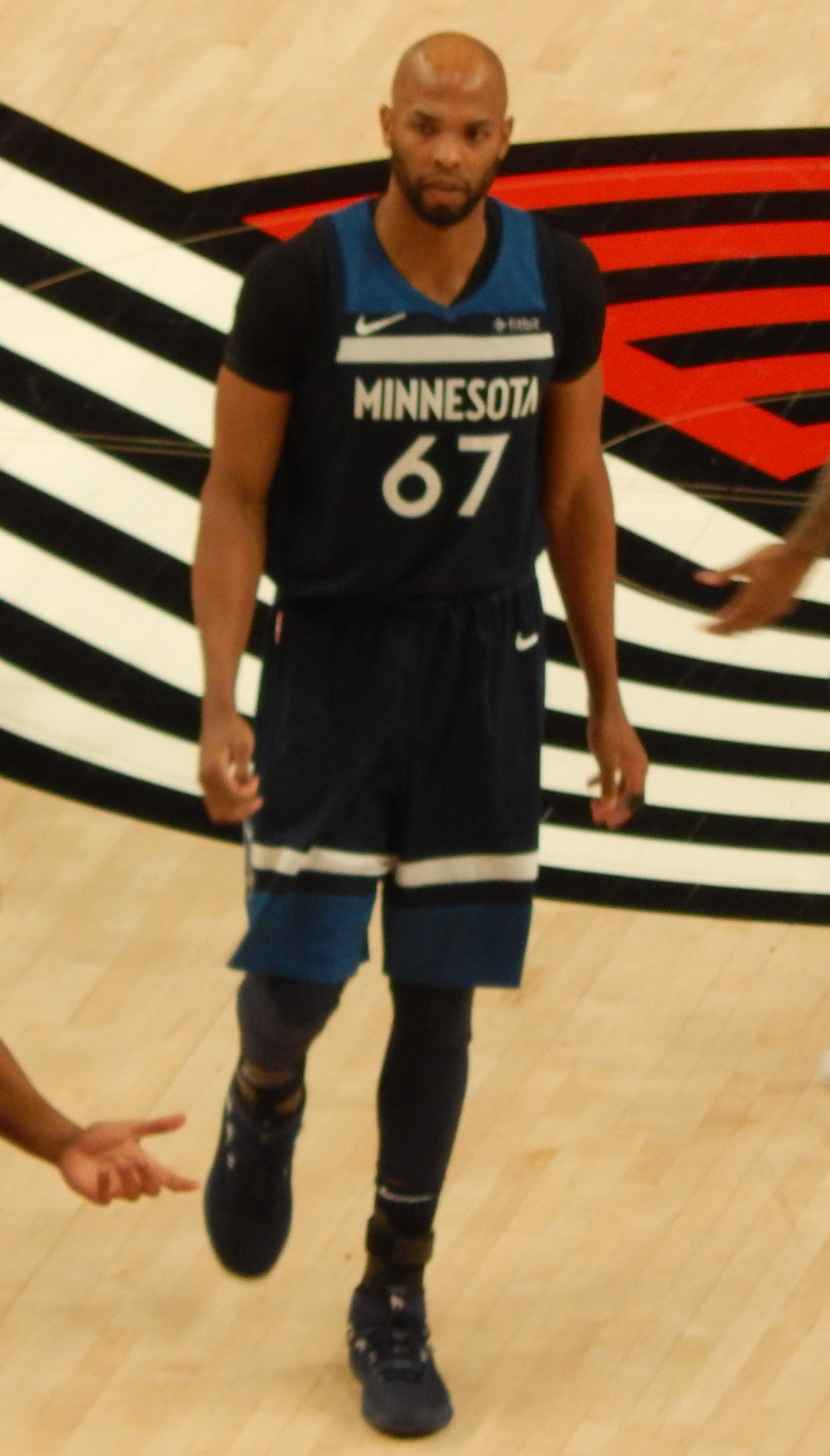 Taj Gibson #67 of the Minnesota Timberwolves against the Portland Trail Blazers on March 1, 2018 at Moda Center in Portland, Oregon.